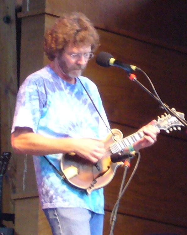 Photo of Sam Bush in concert.